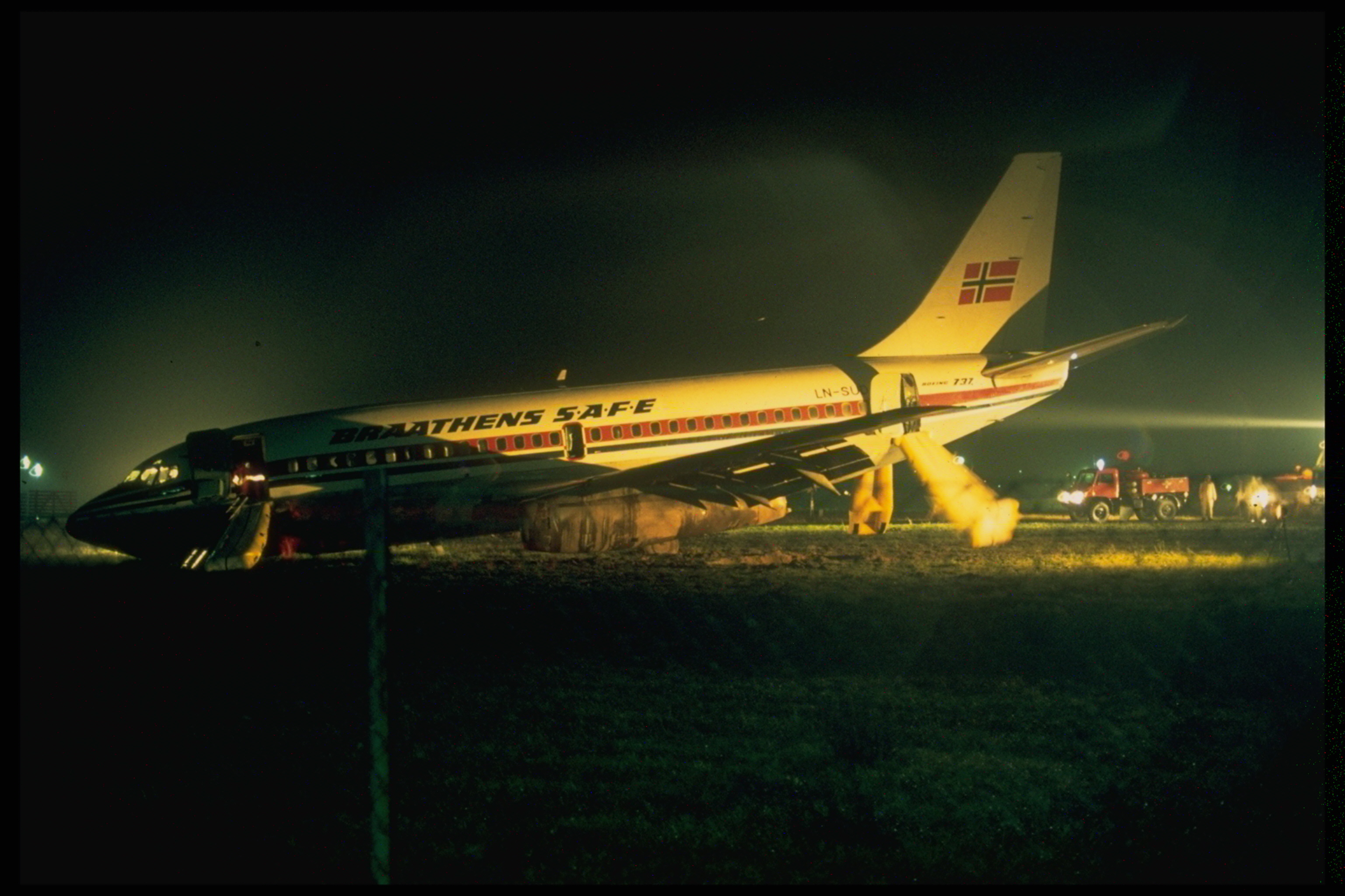 Braathens SAFE Boeing 737-205 LN-SUD after landing accident at Kristiansand Airport Kjevik 1977-10-31